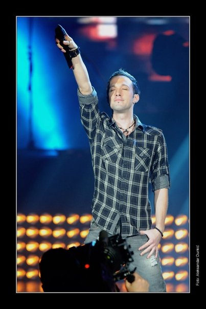 Vukasin SC concert2